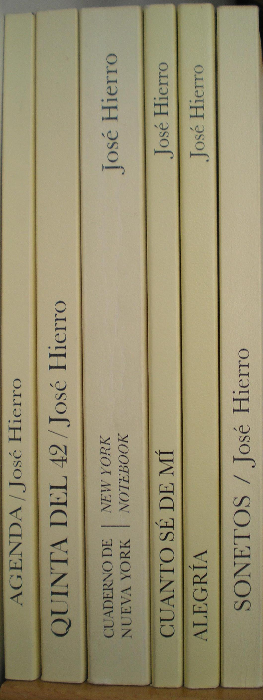 Books by José Hierro.